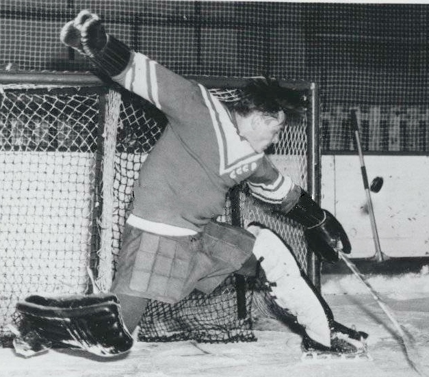 Original 1956 Olympics Hockey Press Photo Russian Goalie - Pushkov Russia Wins